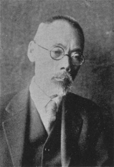 Dr. Shinichirō Nishi (in commemoration of his 60th birthday, 1933).